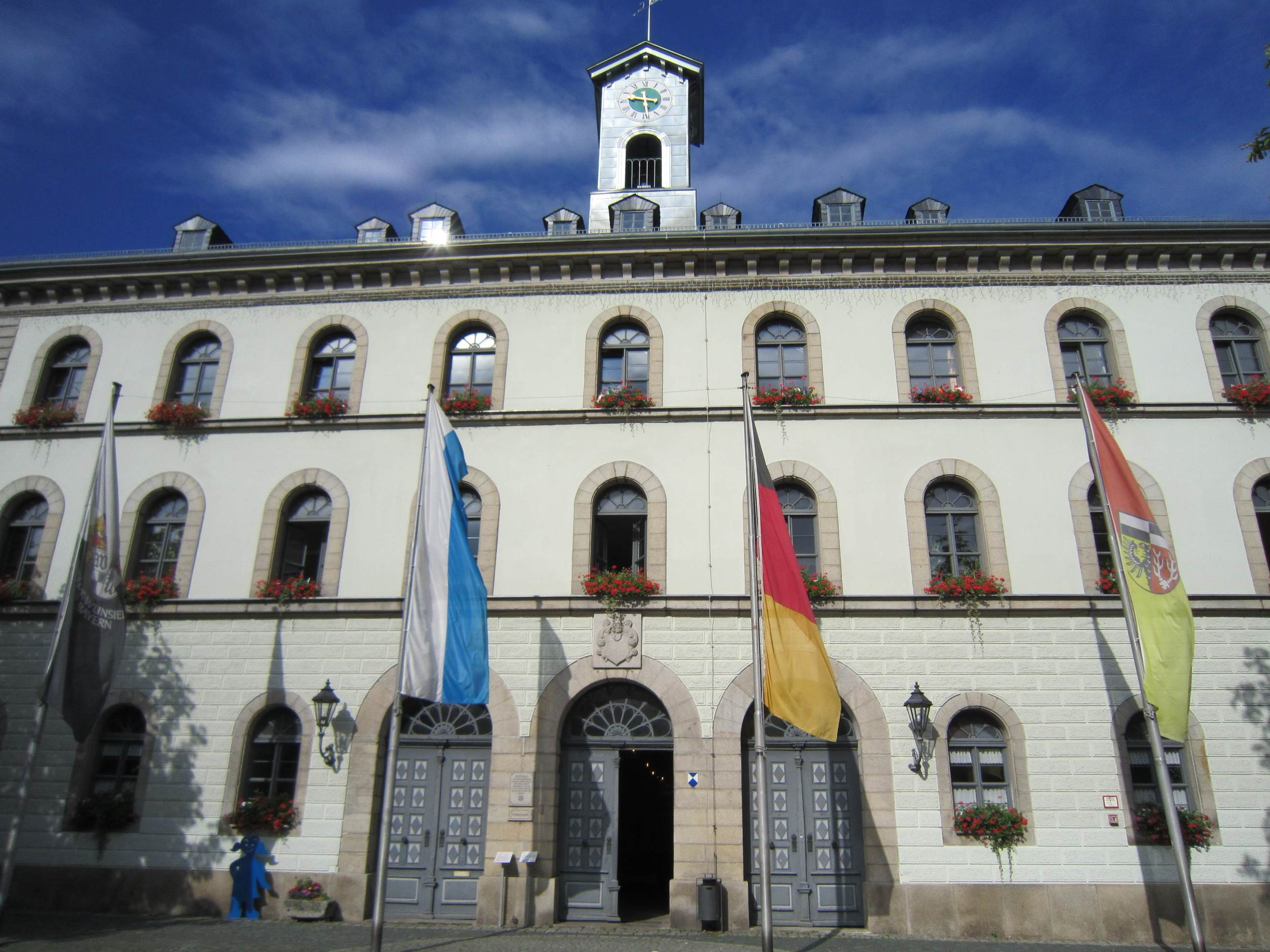 City Hall in Wunsiedel